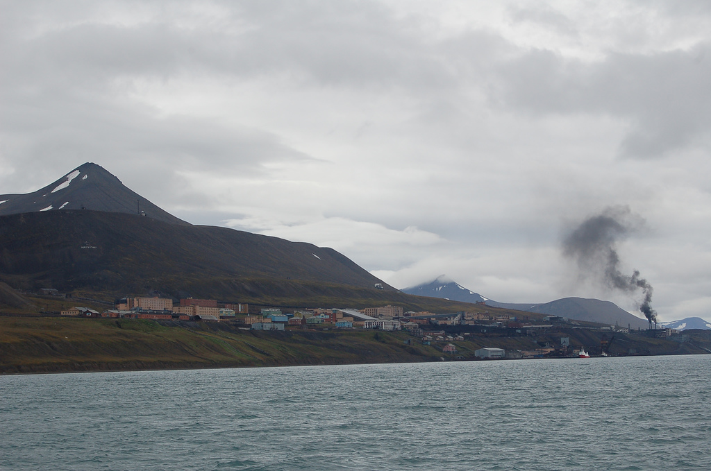 Arrival to Barentsburg